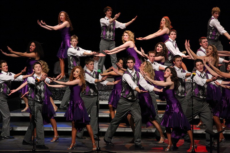 The Totino-Grace "Company of Singers" perform their opening number, "Promise," at the Linn-Mar Supernova.